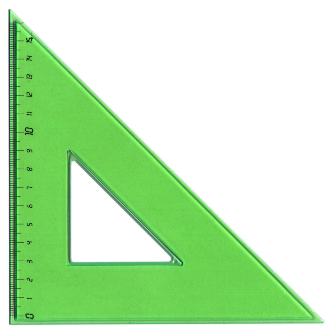 Square (Tool)